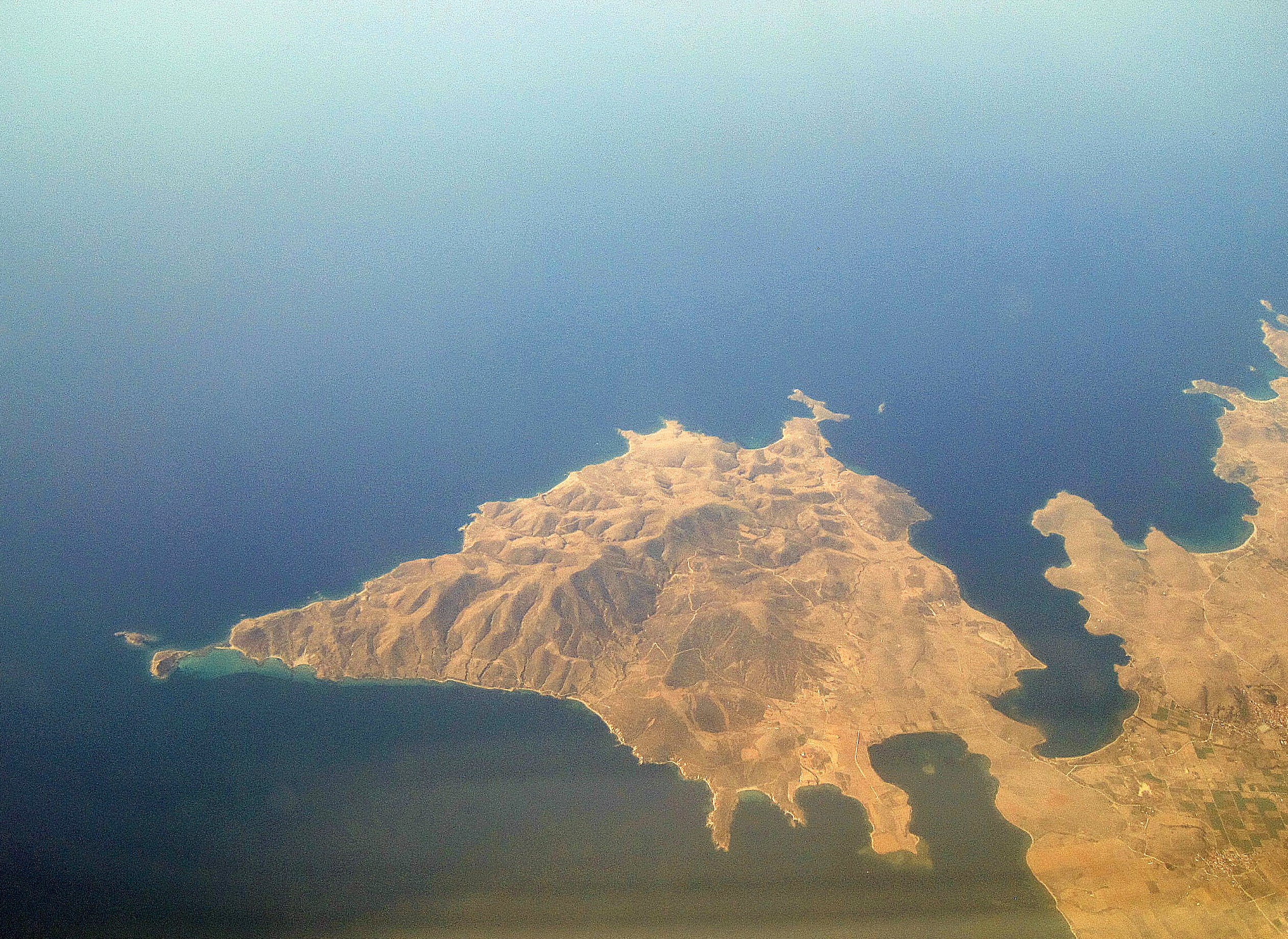 Myrina from the air, Myrina, Greece